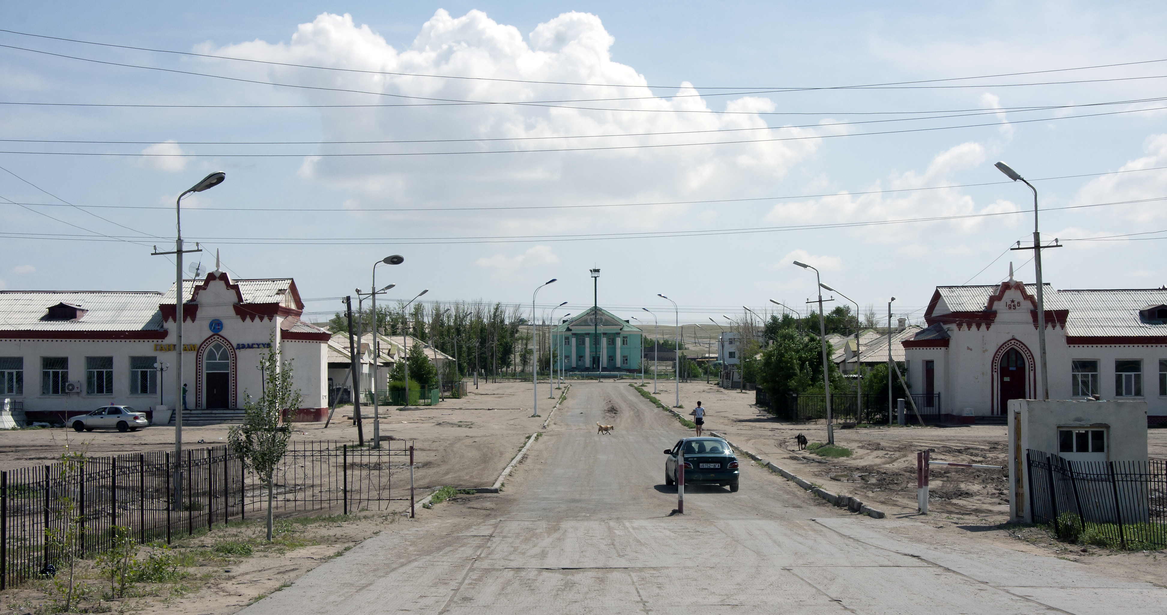 A street in Sainshand, Mongolia. The picture is taken from the railway station.